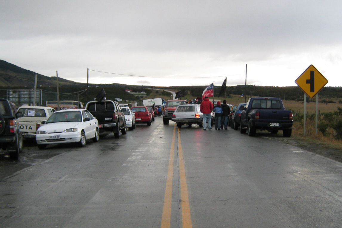 Blocking roads between Route 9 and road No. 4 (Y-135)in Puerto Natales city.